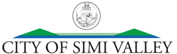 Logo of the city of Simi Valley